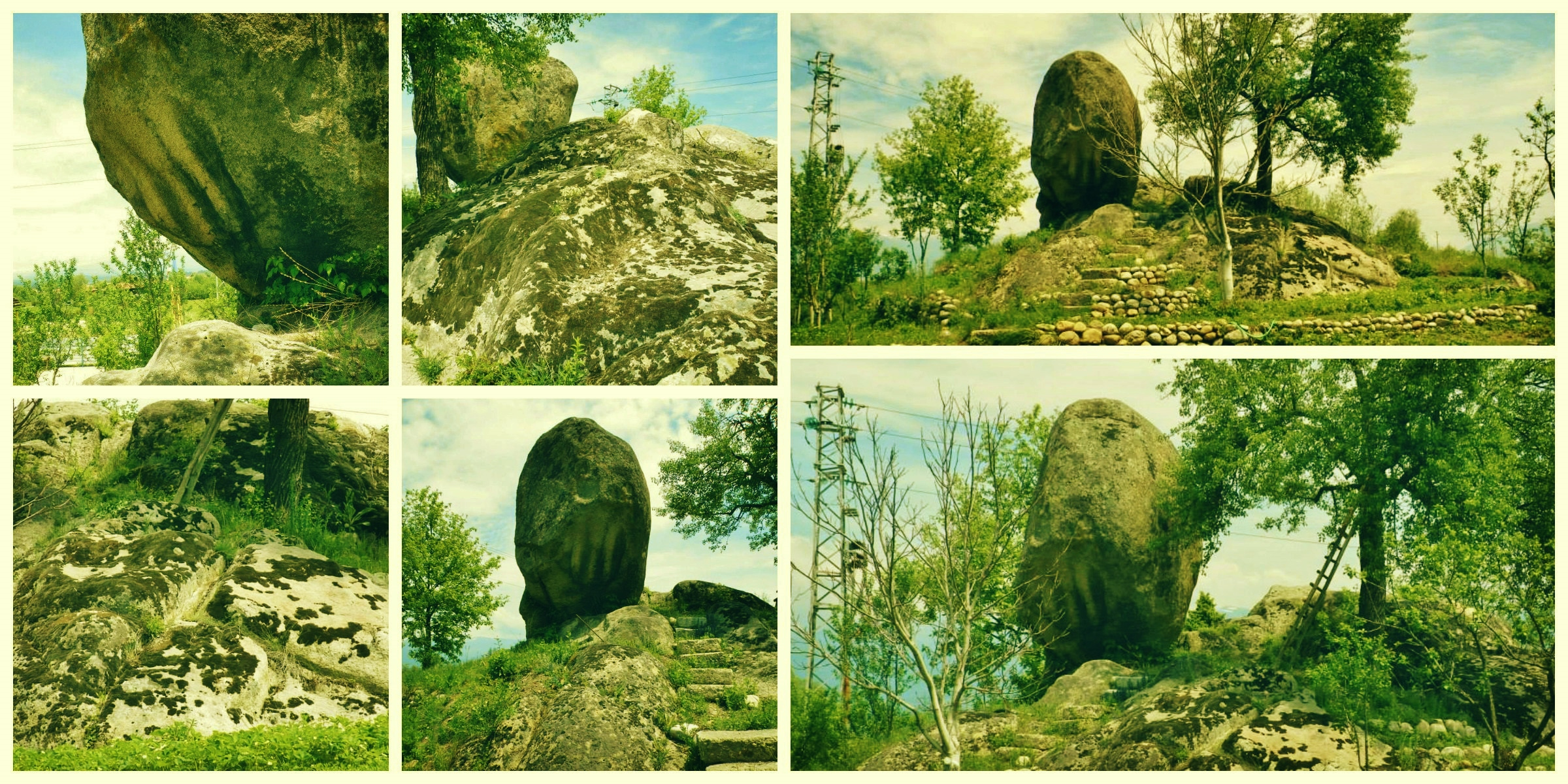 Kamako_Krali_Markov_kamak_Banya_BG